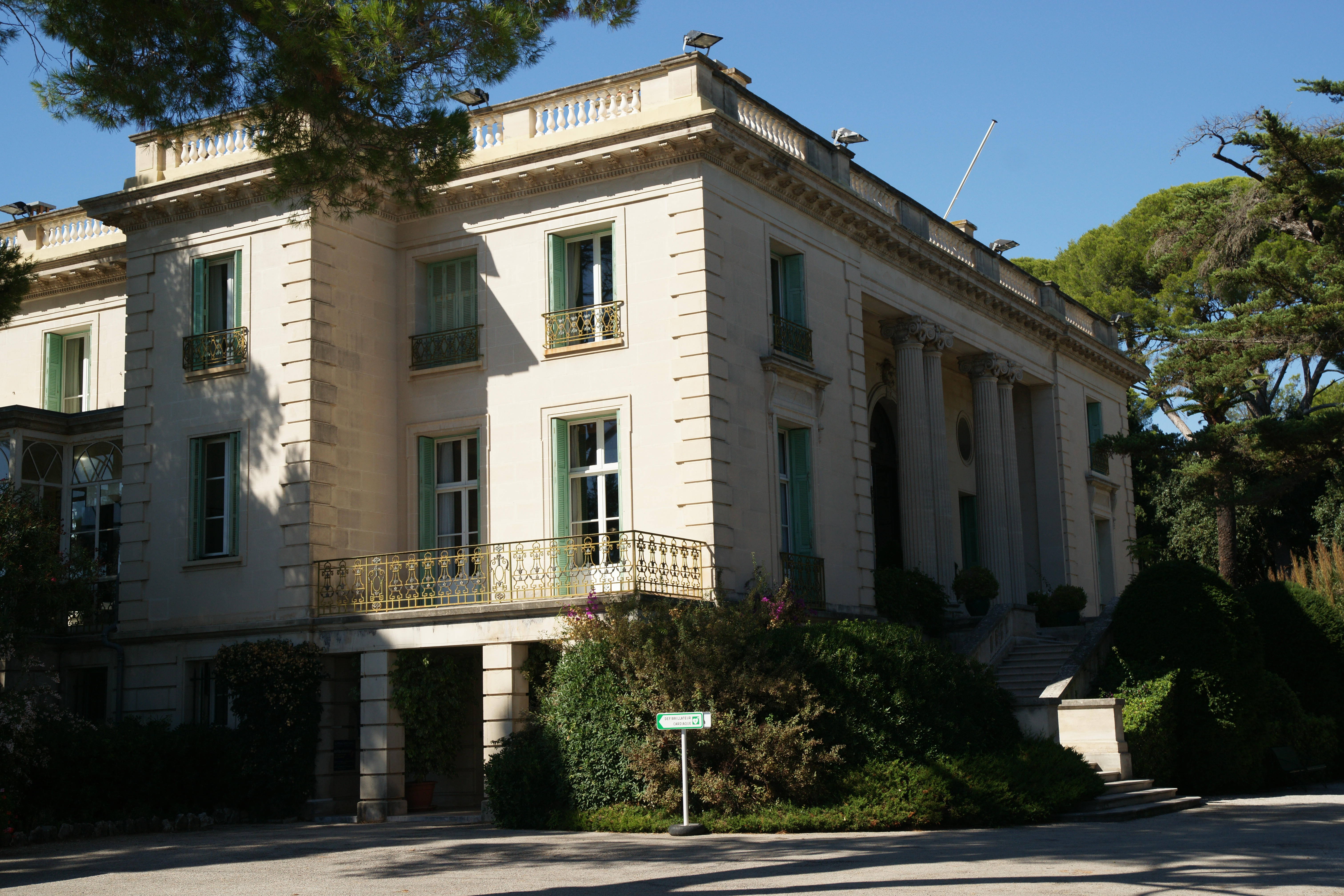 villa Eilenroc, sud and east, Cap d'Antibes, Juan-les-Pins, France